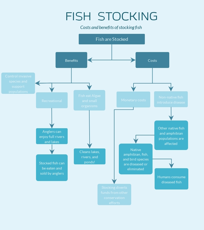 Flow chart illustrating costs and benefits of fish stocking